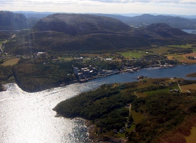 Lysøysund of Bjugn municipality, Norway. Seen from north